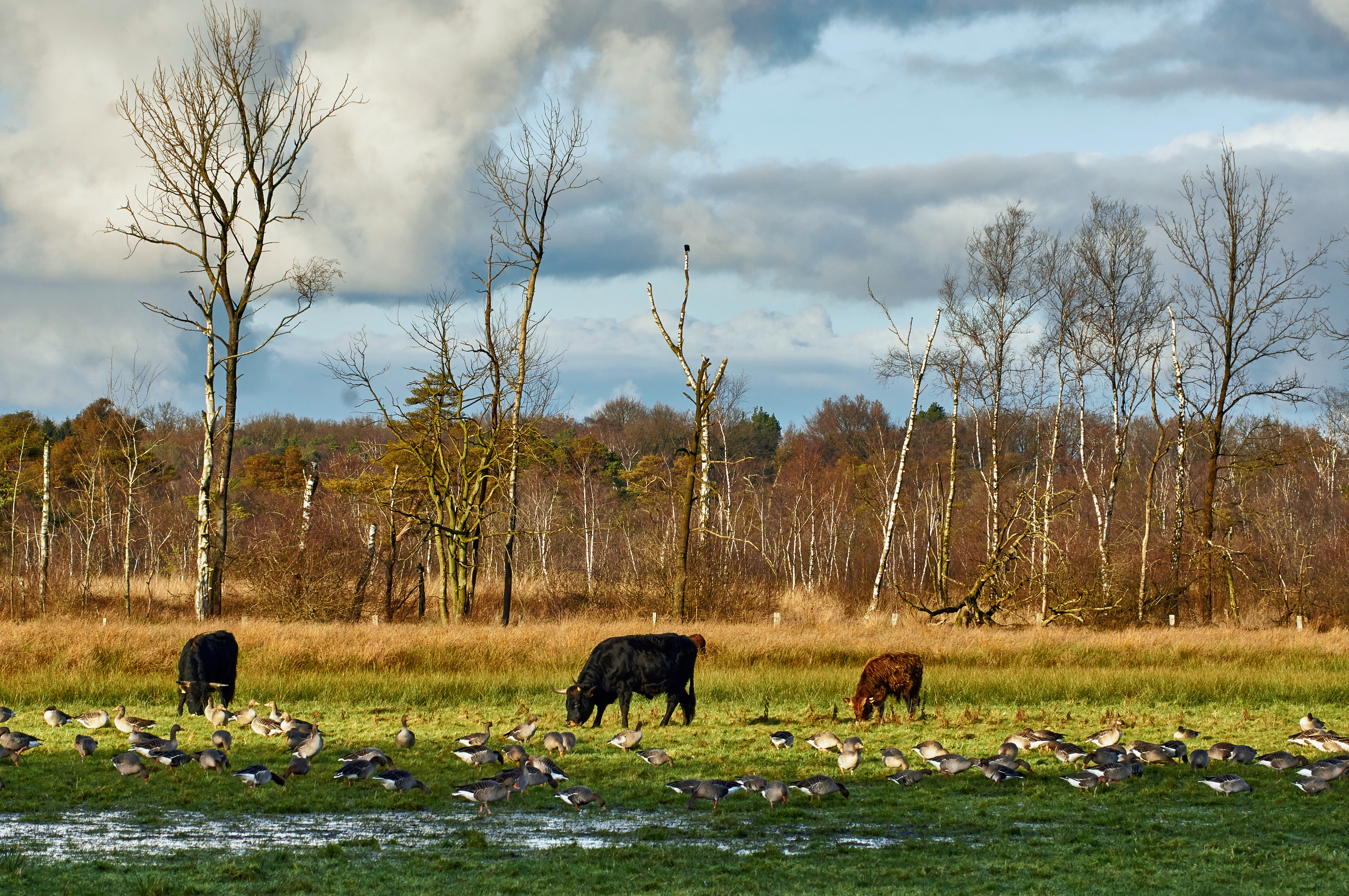 Nature reserve Burlo-Vardingholter Venn und Entenschlatt, Borken, Germany.